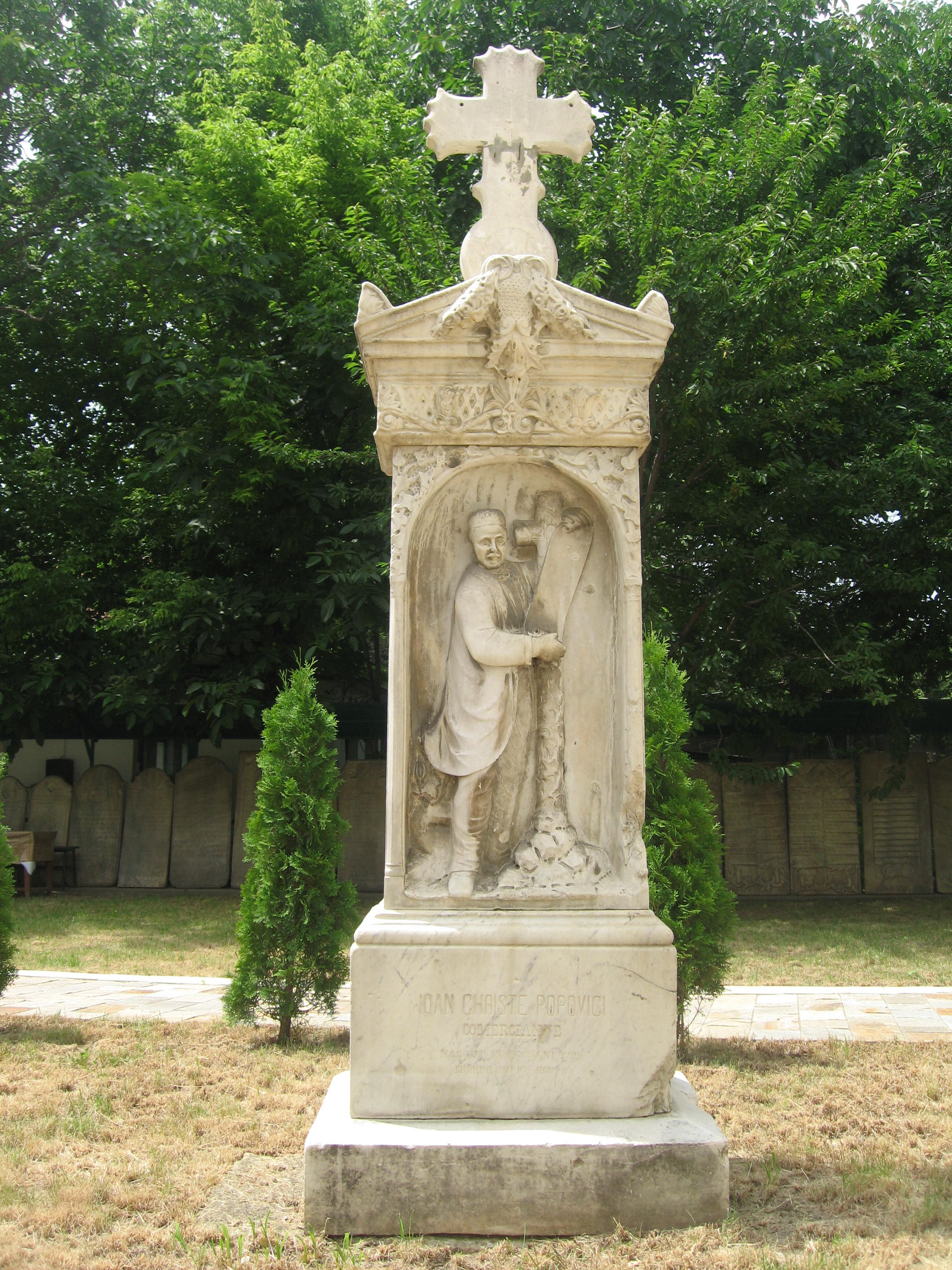 Armenian church in Iași